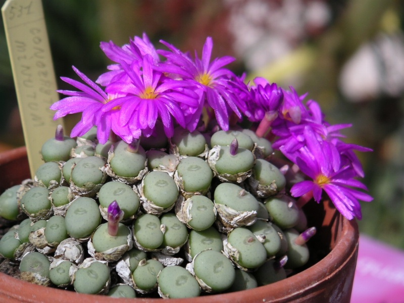 Personnal collection